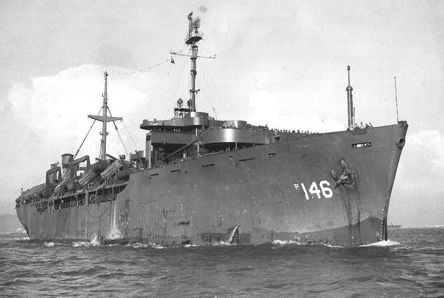 The U.S. Navy transport USS General W. F. Hase (AP-146) underway, circa in 1945.